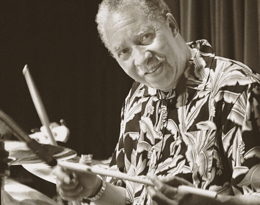 Drummer Joseph "Zigaboo" Modeliste as depicted on a 2016 Mardi Gras poster. Photograph: March 21, 2010, Oakland, California. [1]